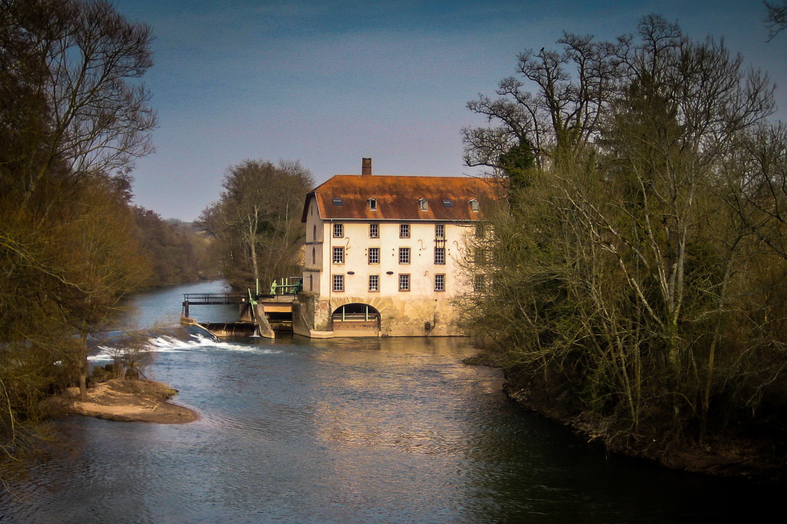 Mill of Blies, Sarreguemines